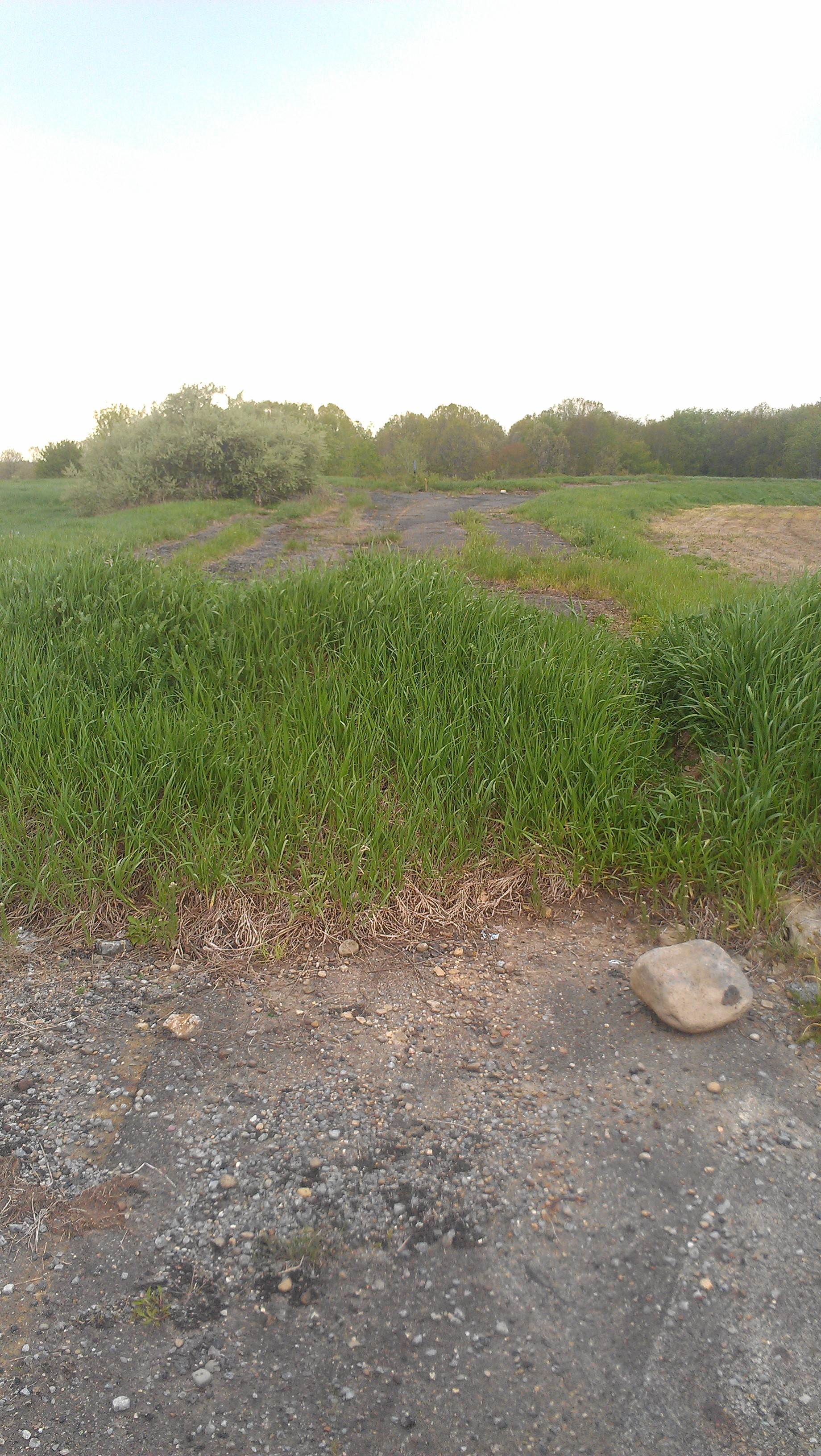 Ghost ramps located along the northbound side of Interstate 79 near mile marker 100.